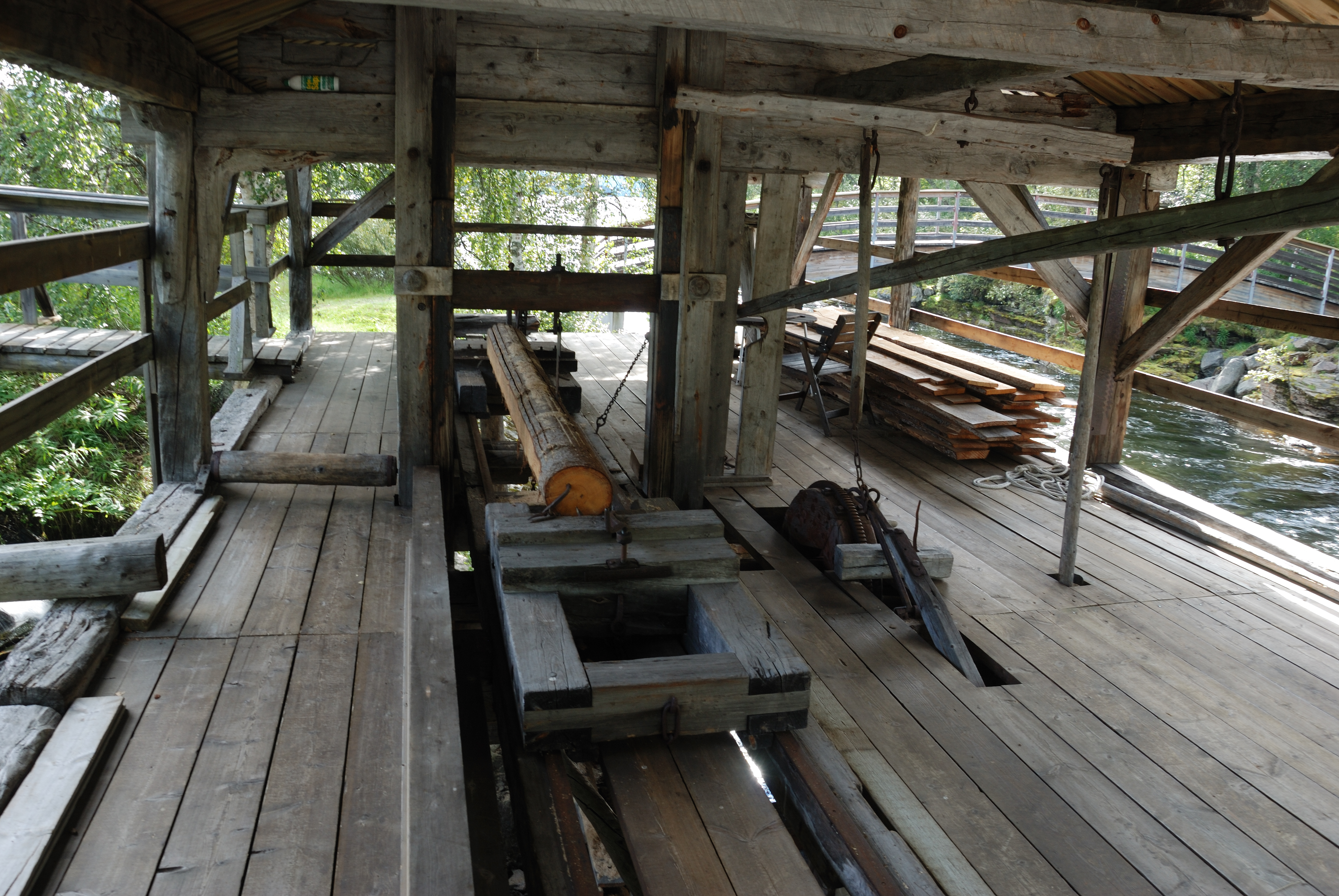 Frame saw in Ljusnedal.